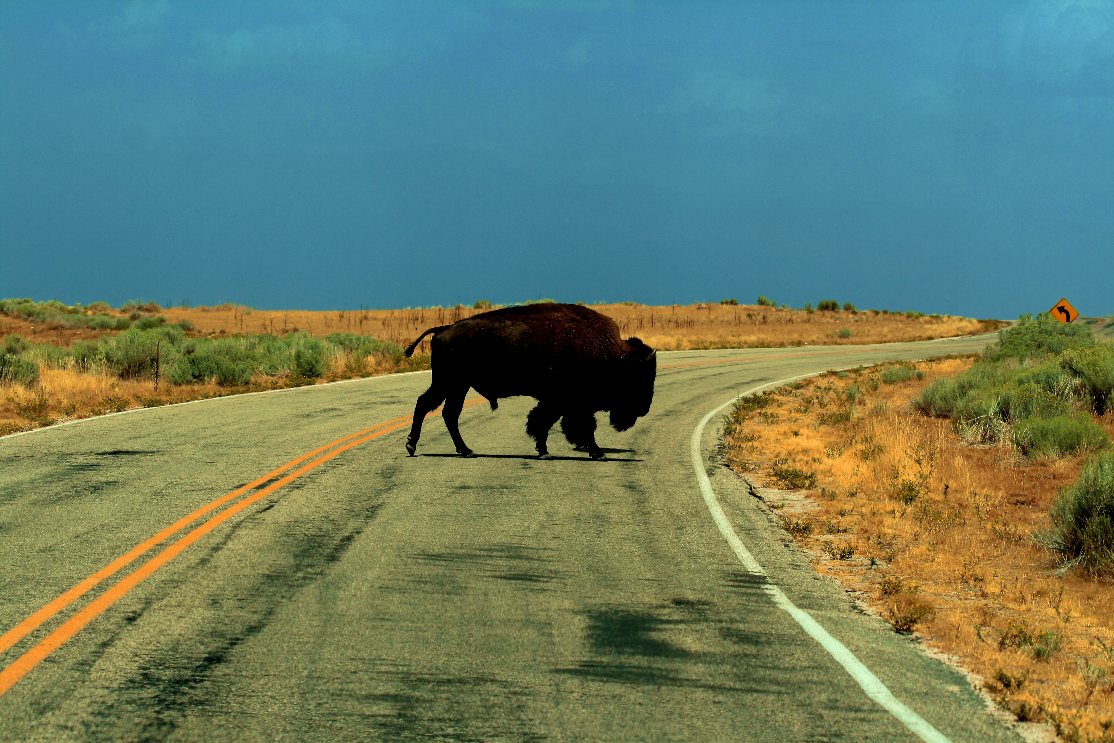 Crossing on Antelope Island, Utah. They roam free there. Photo taken from out my car window. My photos that have a creative commons license and are free for everyone to download, edit, alter and use as long as you give me, "D Sharon Pruitt" credit as the original owner of the photo. Have fun and enjoy!